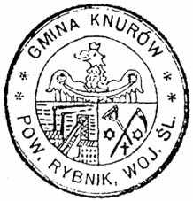 Seal of Knurów Commune, 1926